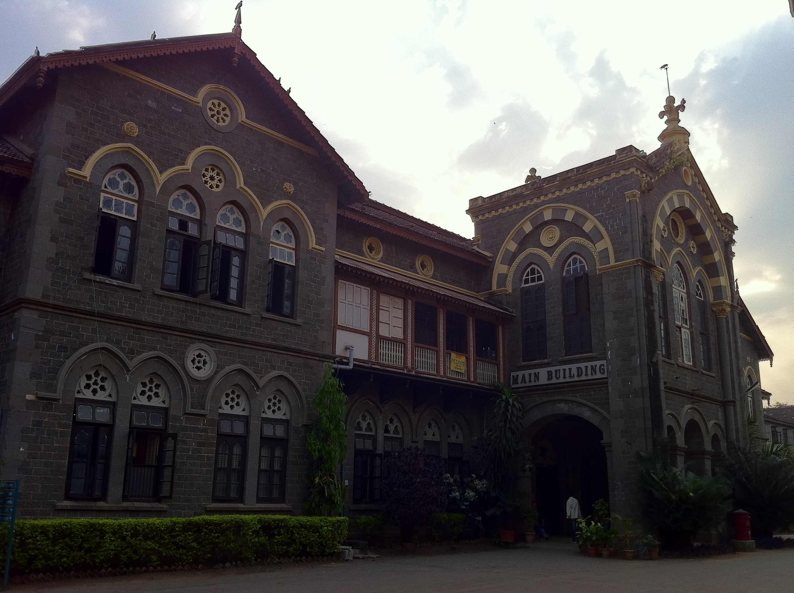 Fergusson College Main Bldg